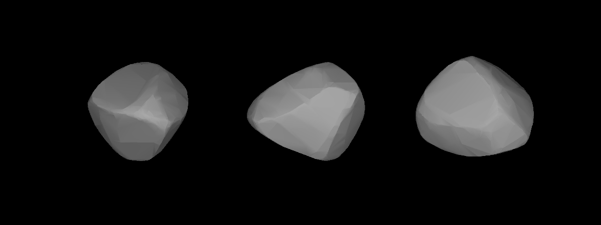 A three-dimensional model of 178 Belisana that was computed using light curve inversion techniques.